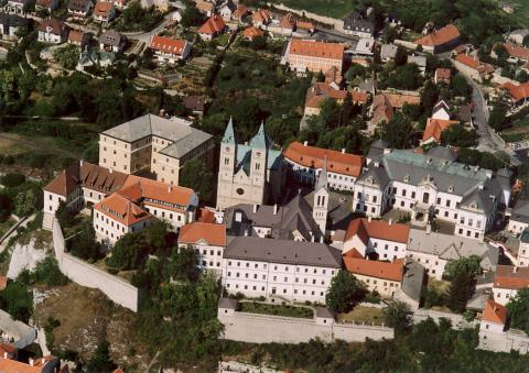 Veszprém, castle, Hungary, aerialphotography